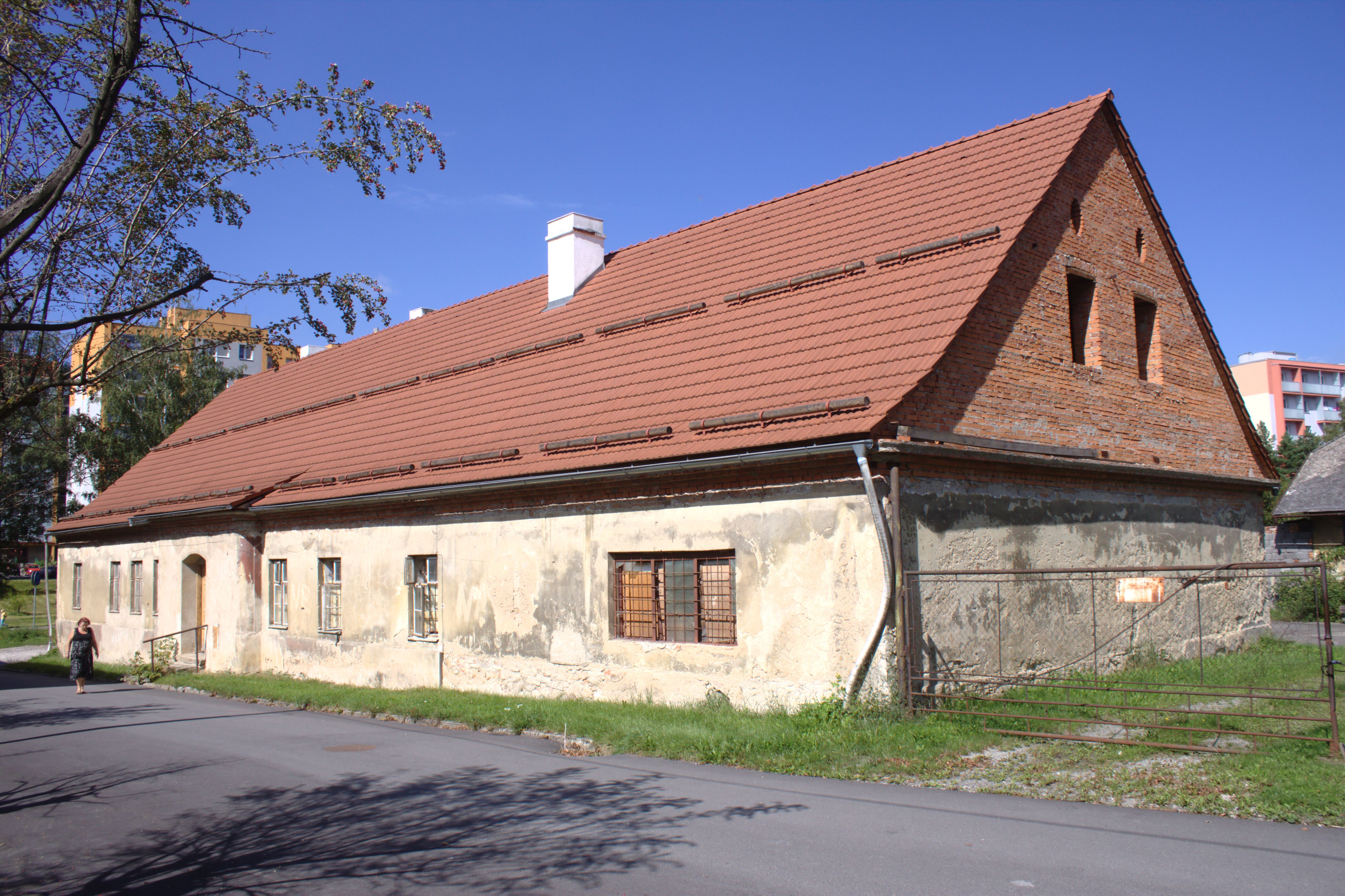 Former arcibishop‘s residence in Kopřivnice, the last remaining building. Moravian-Silesian Region, CZ This image was acquired during the event Wikiměsto Kopřivnice.